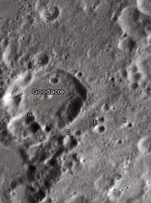 Goodacre lunar crater as seen from Earth with satellite craters labeled